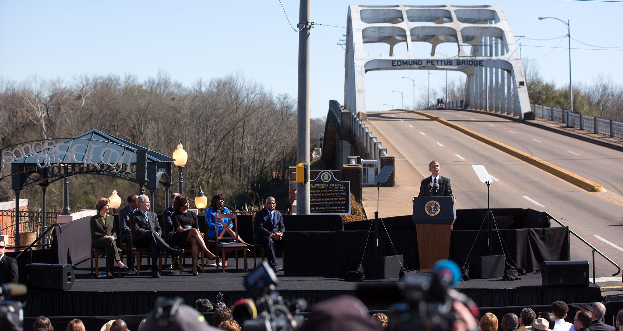 50th Anniversary of the Selma Marches - Former President George W Bush listens as President Obama delivers remarks at the foot of the Edmund Pettus Bridge